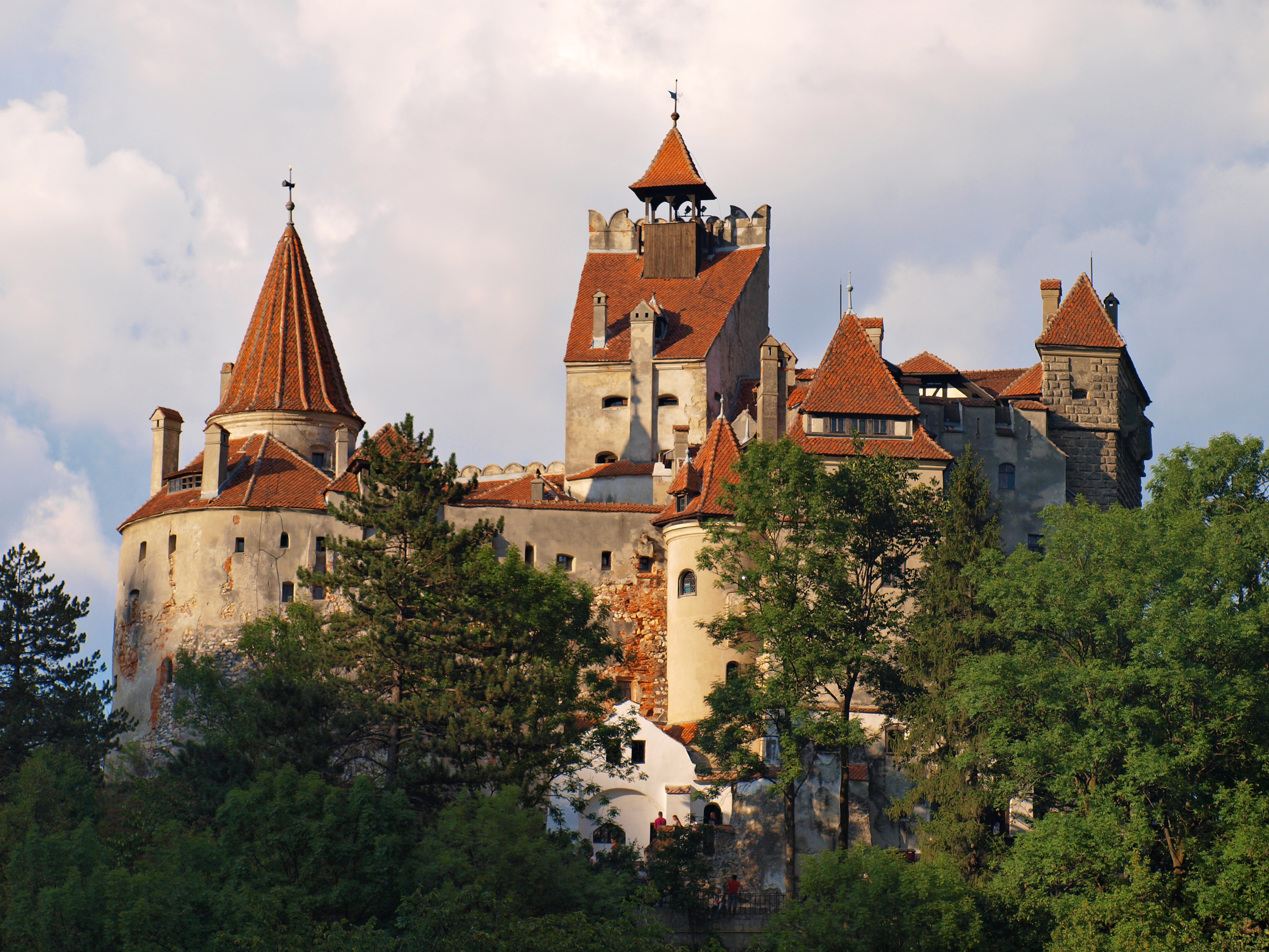 Bran Castle, Bran, Brasov, Transylvania, Romania